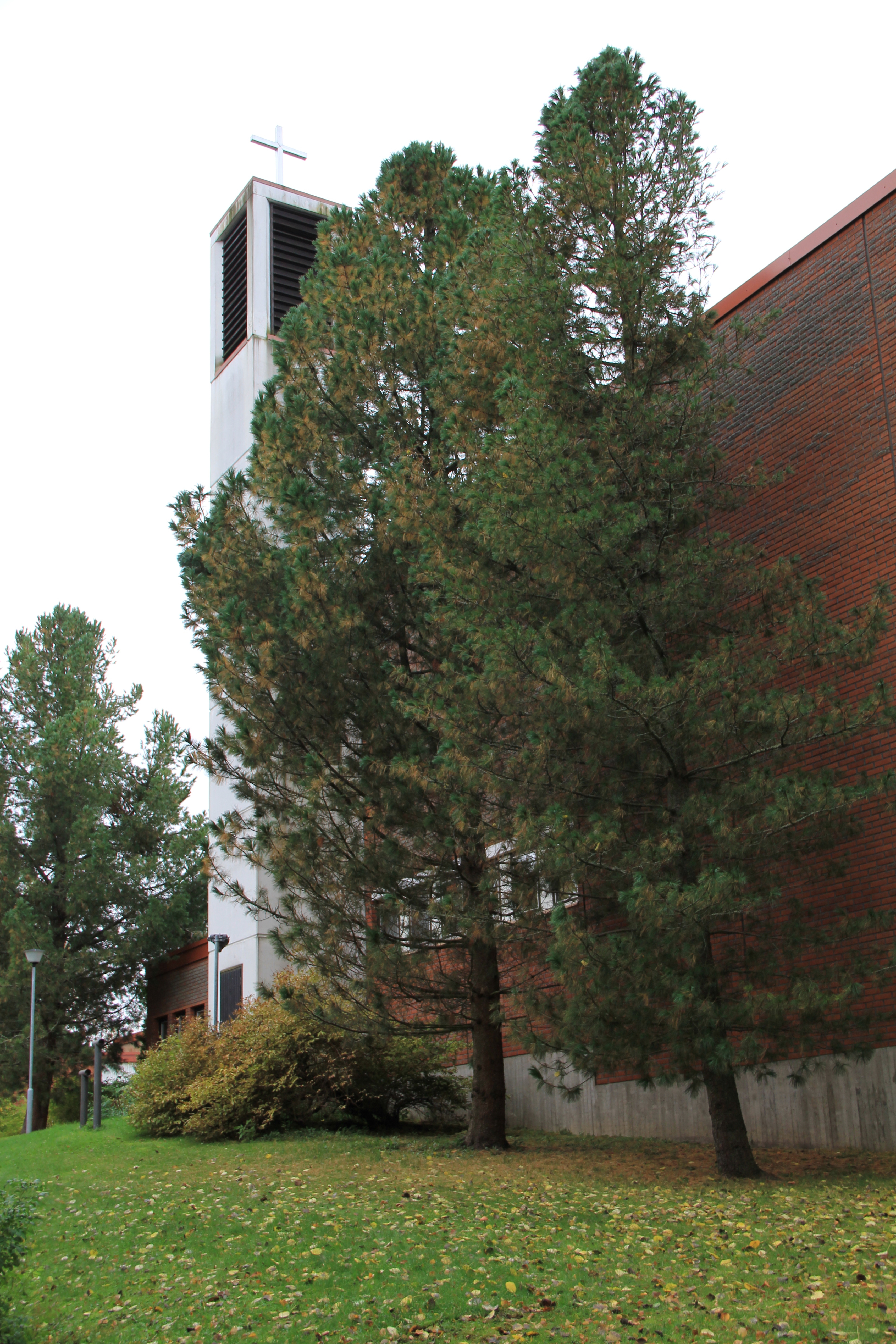 Puijo church, Kuopio, Finland. - Campanile.